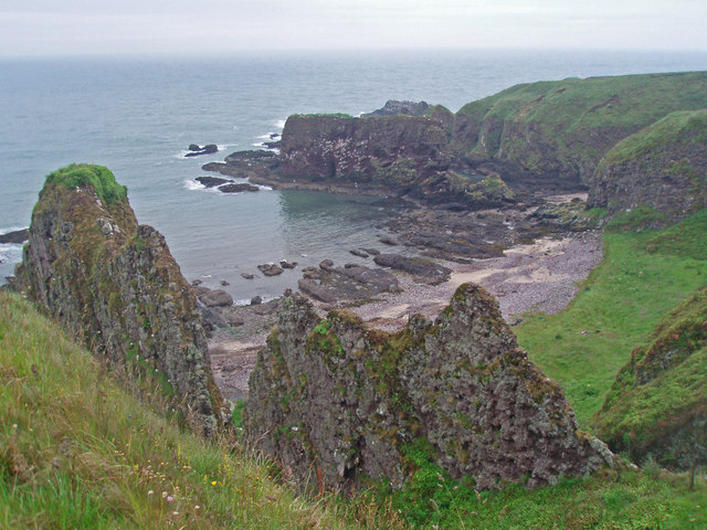 Small cove at Dunncaer Dunnicaer is an ancient settlement dating at least as early as the Pictish era circa 6th century AD. A number of significant carved Pictish stones have been recovered from the site.